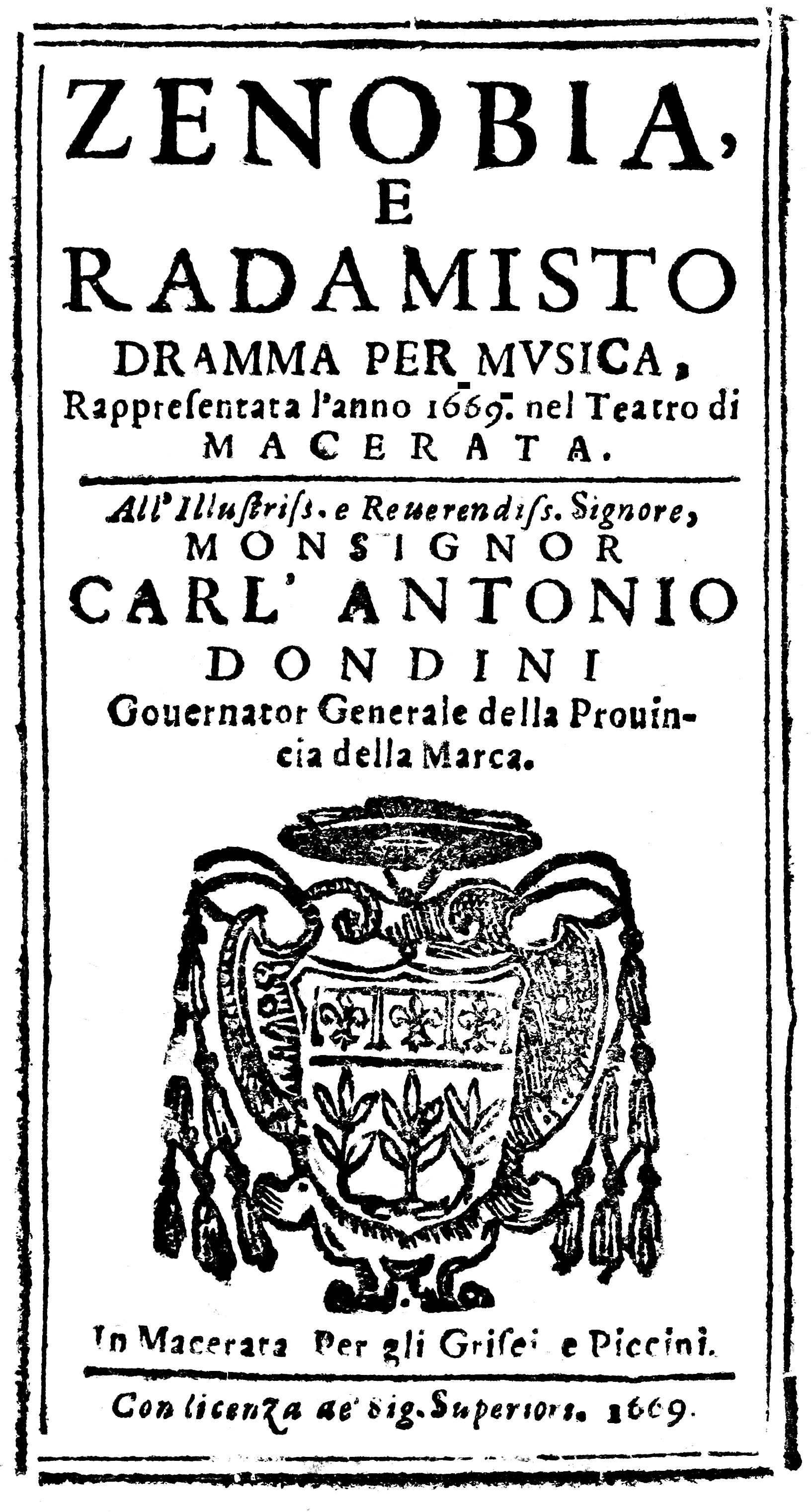 Title page of the libretto for Giovanni Legrenzi's opera Zenobia e Radamisto. The opera premiered in 1665. This libretto was published in 1669 for a performance in Macerata, Italy and is dedicated to Monsignor Carl' Antonio Dondini, governor-general of Le Marche